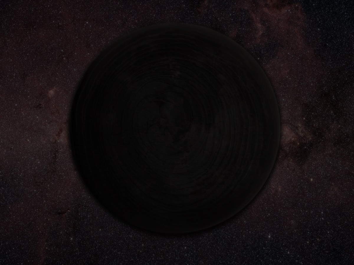 A recreation of a black dwarf star